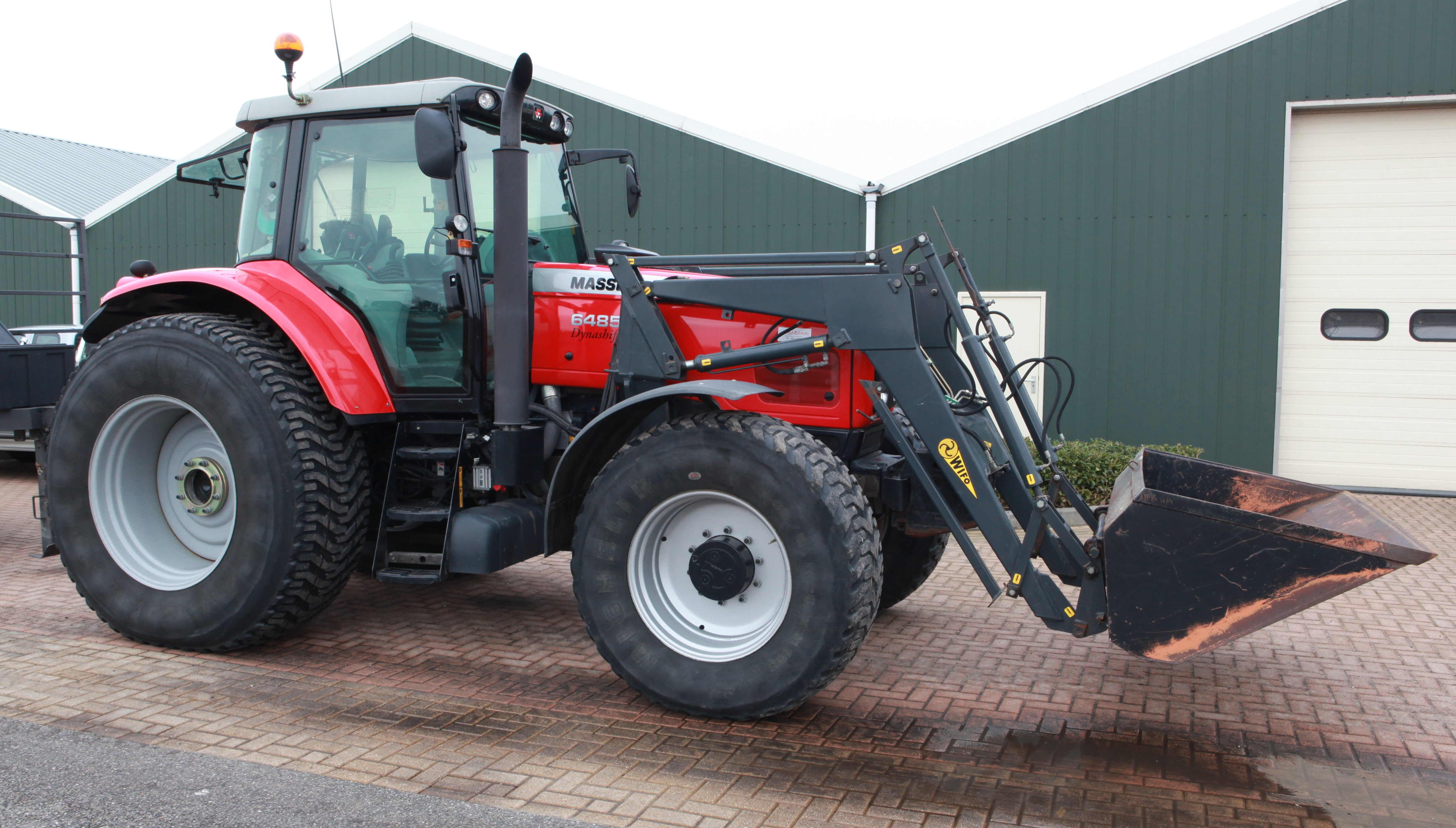 Massey Ferguson 6485 Dynashift with Wifo FEL